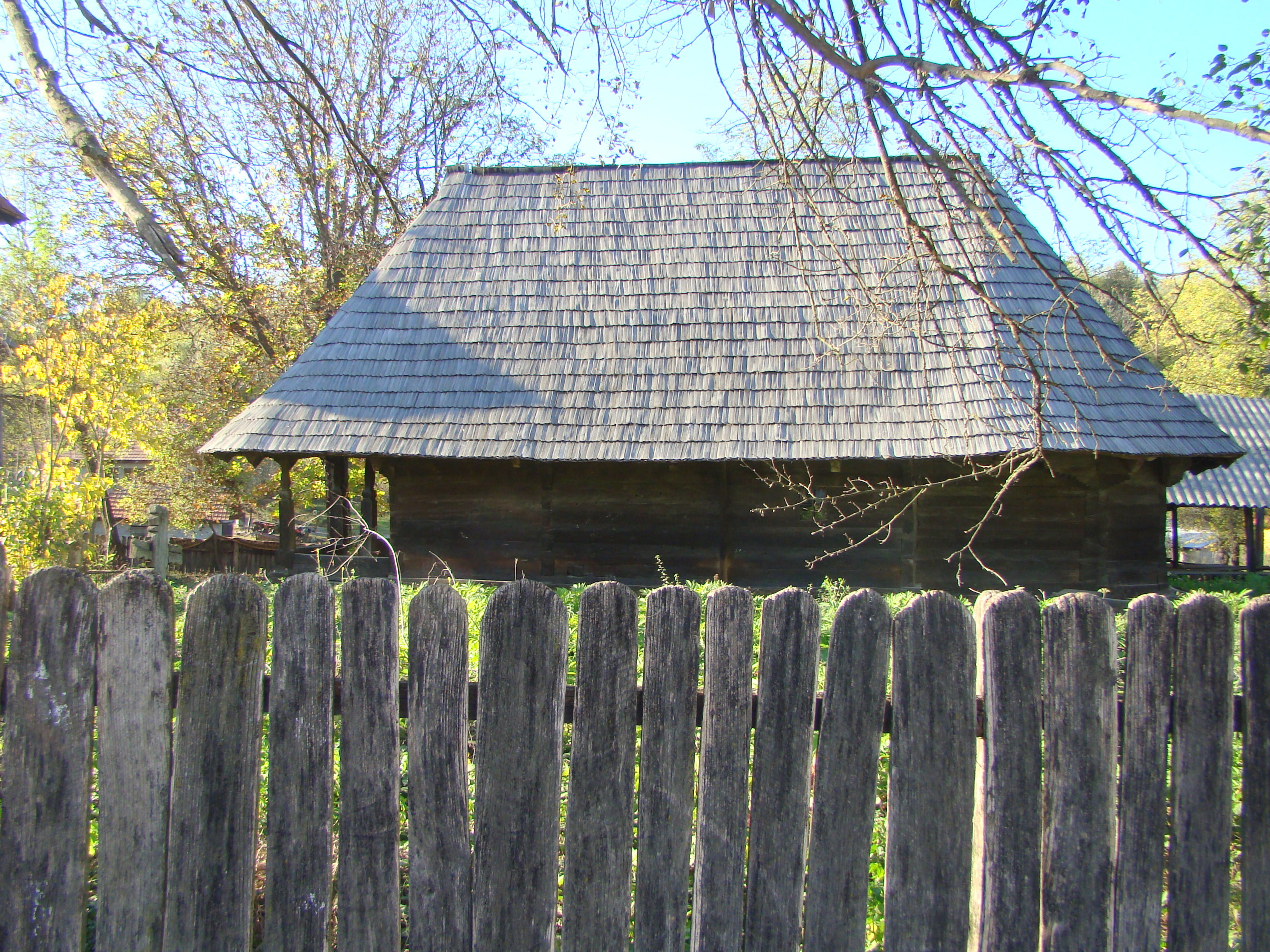 Wooden church in Sura, Gorj county, Romania